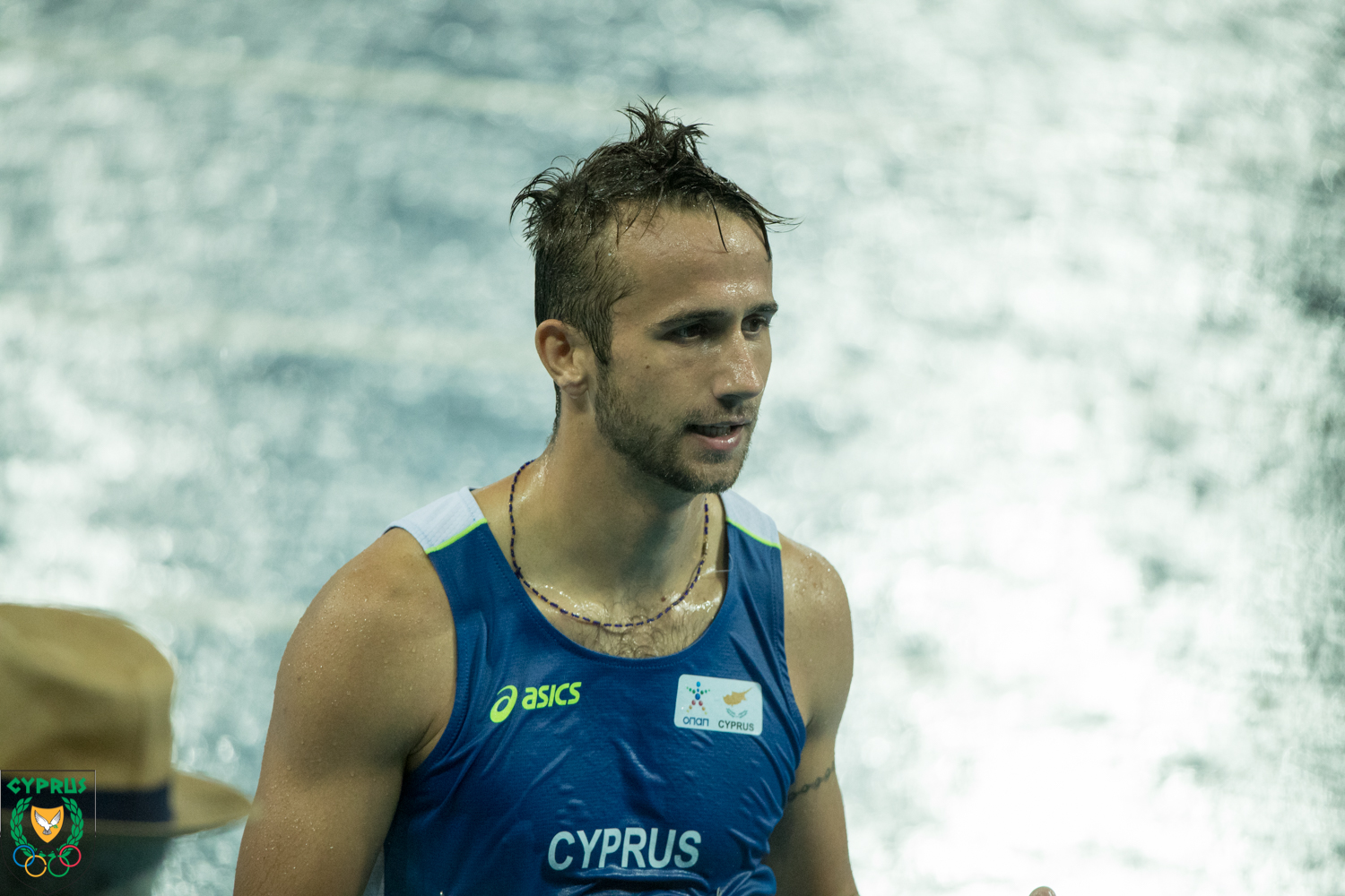 Image of Milan Trajkovic at the 2016 Olympic games 110m mens hurdles qualification